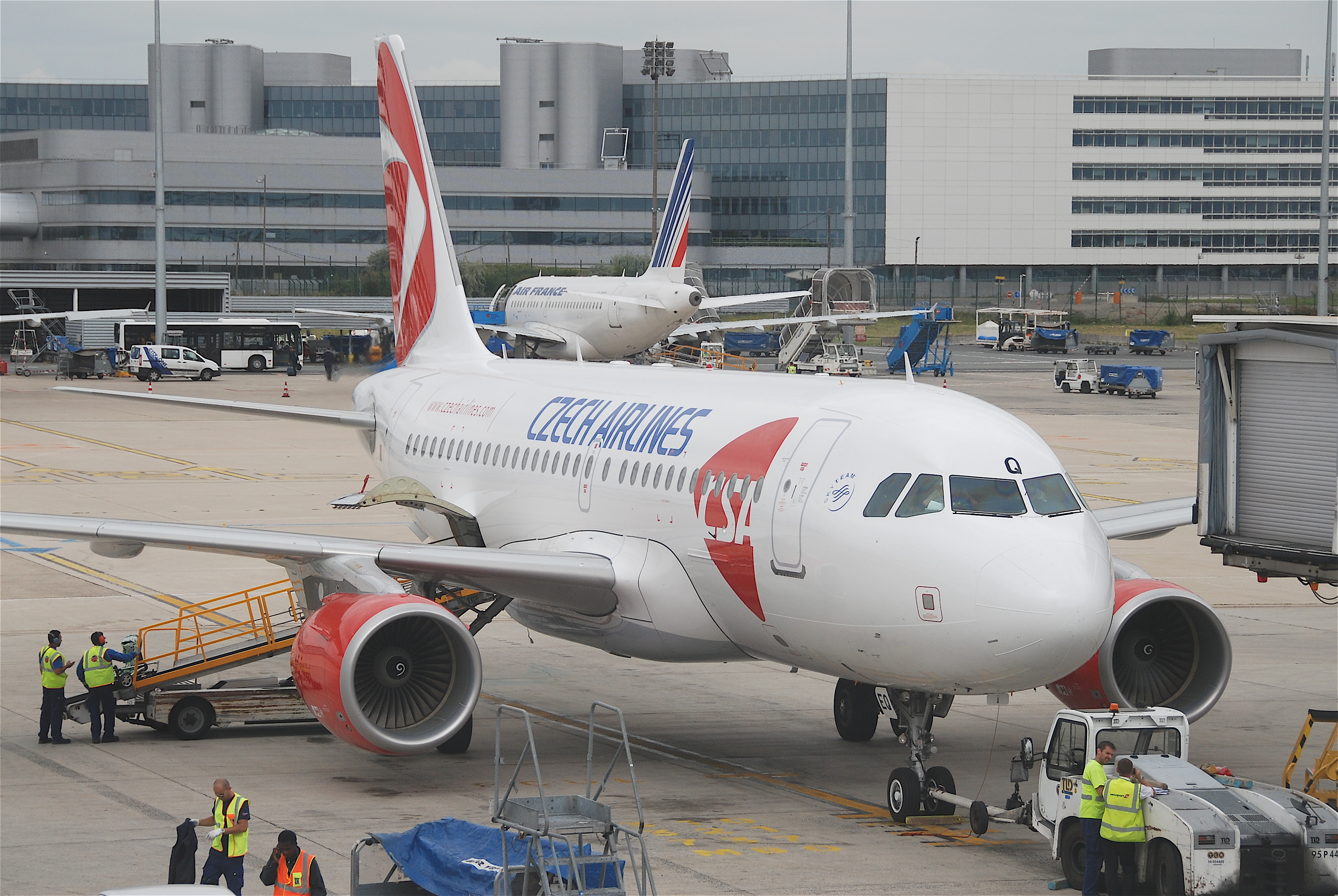 CSA Czech Airlines Airbus A319-112; OK-REQ@CDG;10.07.2011/605hd